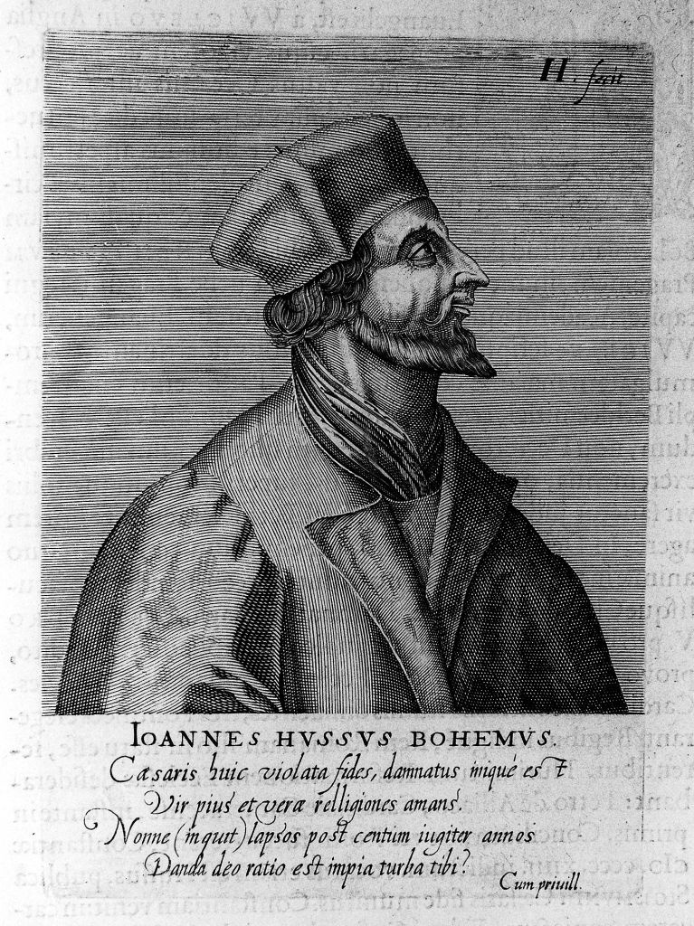 Jan Hus' book portrait from "Praestantium aliquot Theologorum qui Rom. Antichristum praecipue oppugnarunt, Effigies; quibus addita Elogia, Librorumque Catalogi". by Jacobus VERHEIDEN. Pp. 226. Ex officina B.C. Nieulandii: Halæ Comitis, 1602.